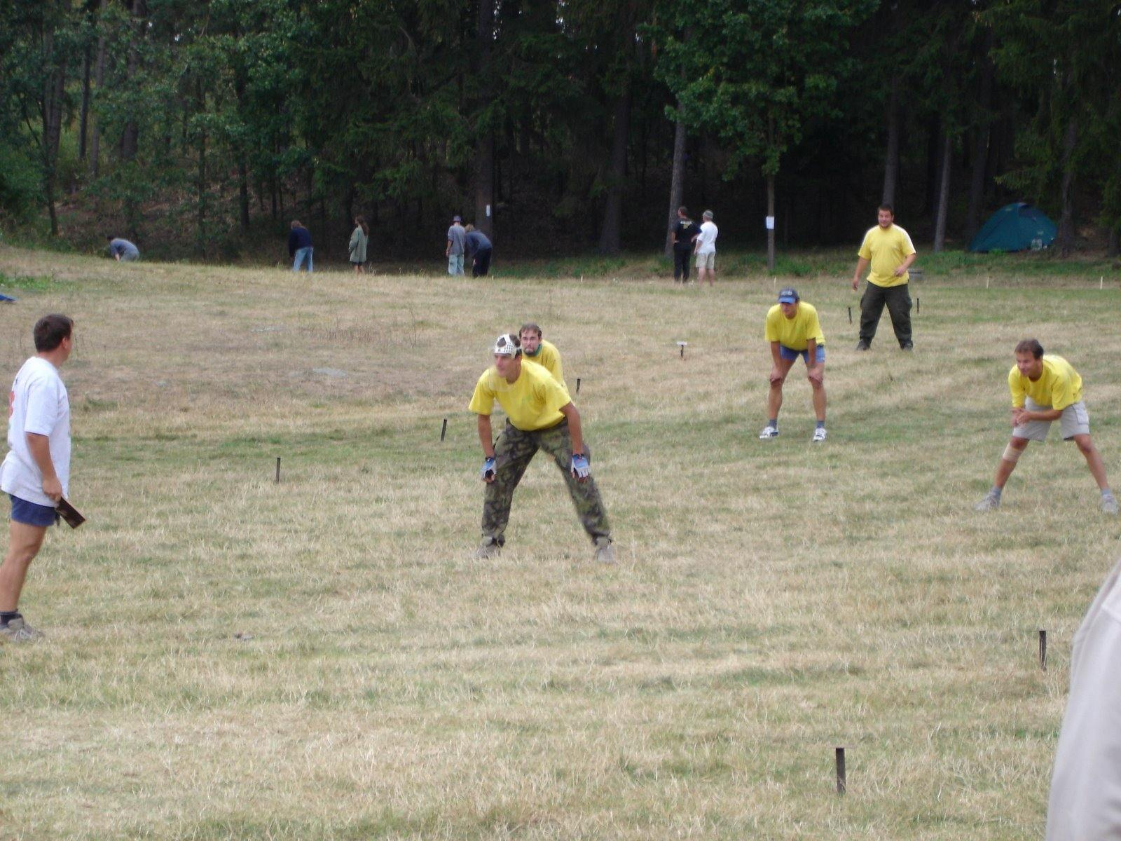 Two teams playing Na špačka game near pond Přibyl.